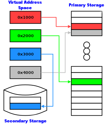 Virtual memory and physical memory